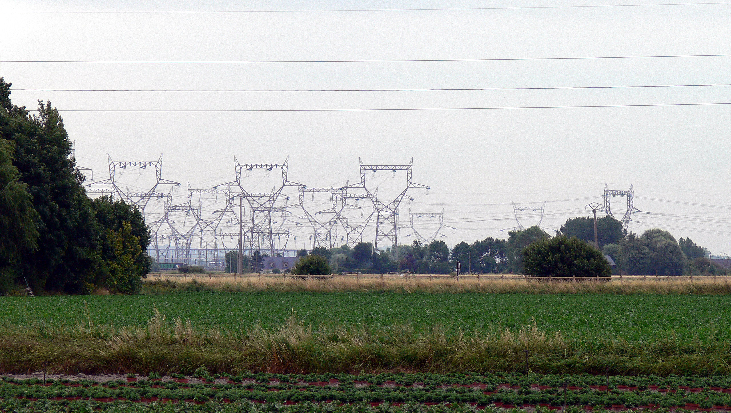 Landscape near Nuclear Power Plant of Gravelines, North de la France, near Dunkerque.